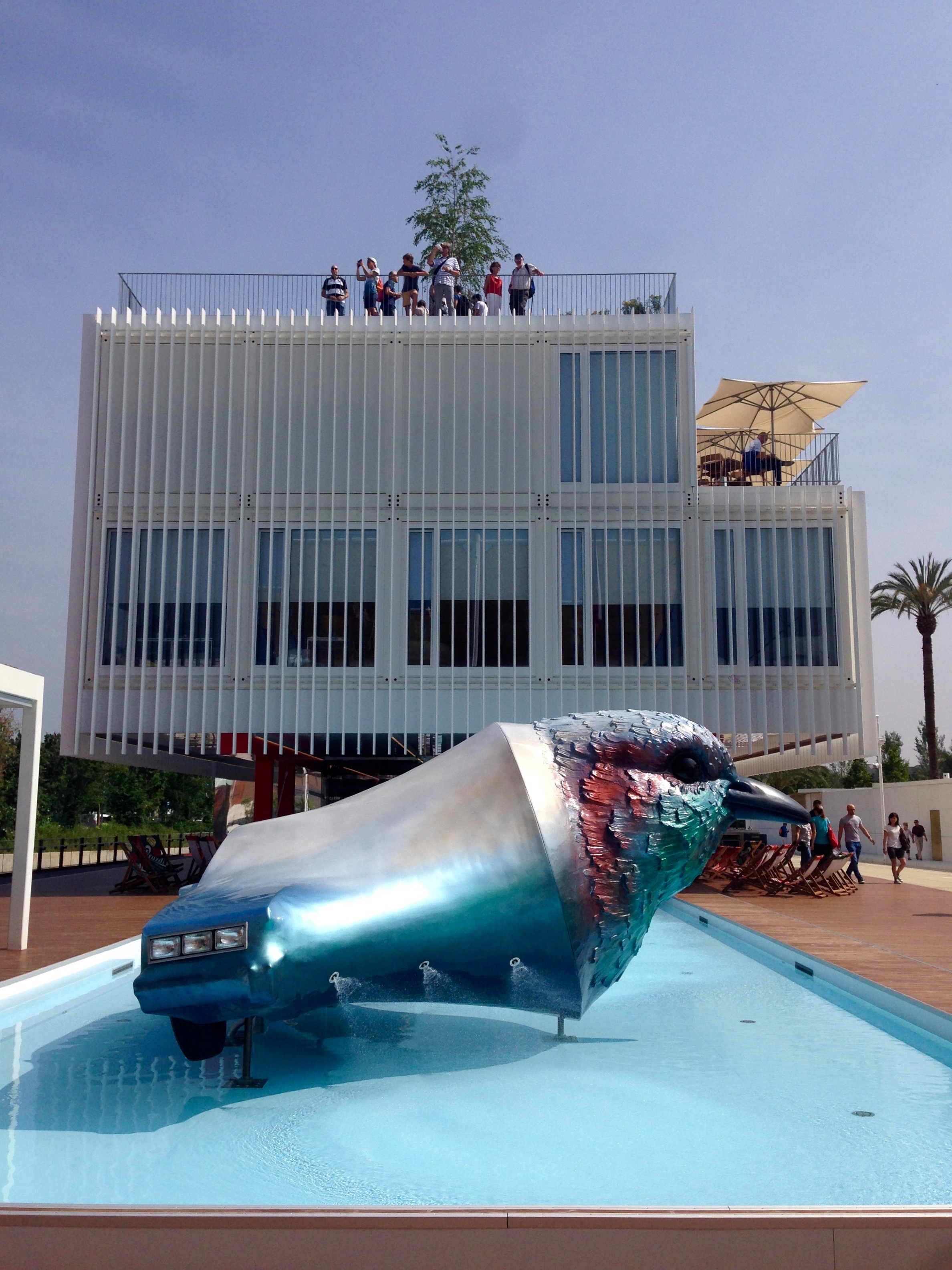 Pavilon of Czech Republic, Expo 2015 Milan